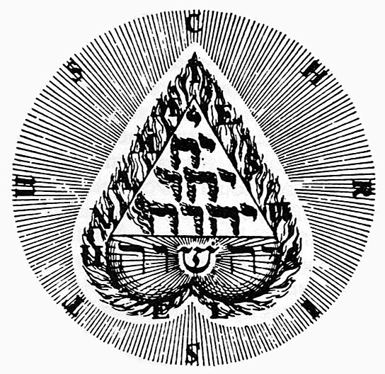 Symbol of early 17th-century mystic Jakob Böhme, including the names "Christus", "Iesus" (Jesus), and "Immanuel" surrounding an inverted heart containing a Tetractys of the Hebrew letters of the Tetragrammaton, and at the bottom, the Pentagrammaton.